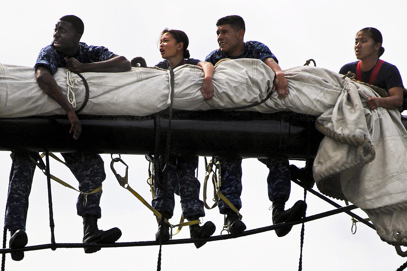 U.S. Navy sailors place the sail on the yard of the main mast aboard the USS Constitution for the first time since the ship began a restoration period in 2007 in Charlestown, Mass., on June 29, 2011. The sailors routinely work to improve seamanship skills to prepare for possibly sailing the ship for the bicentennial of the War of 1812.